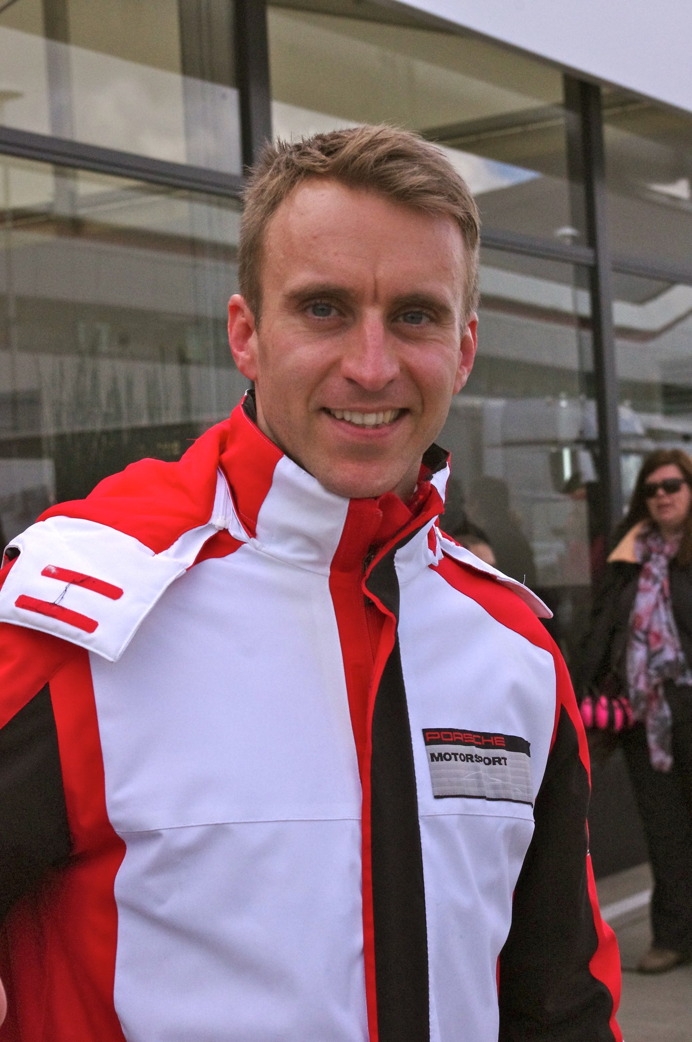 6 Hours of Silverstone (WEC) 2014